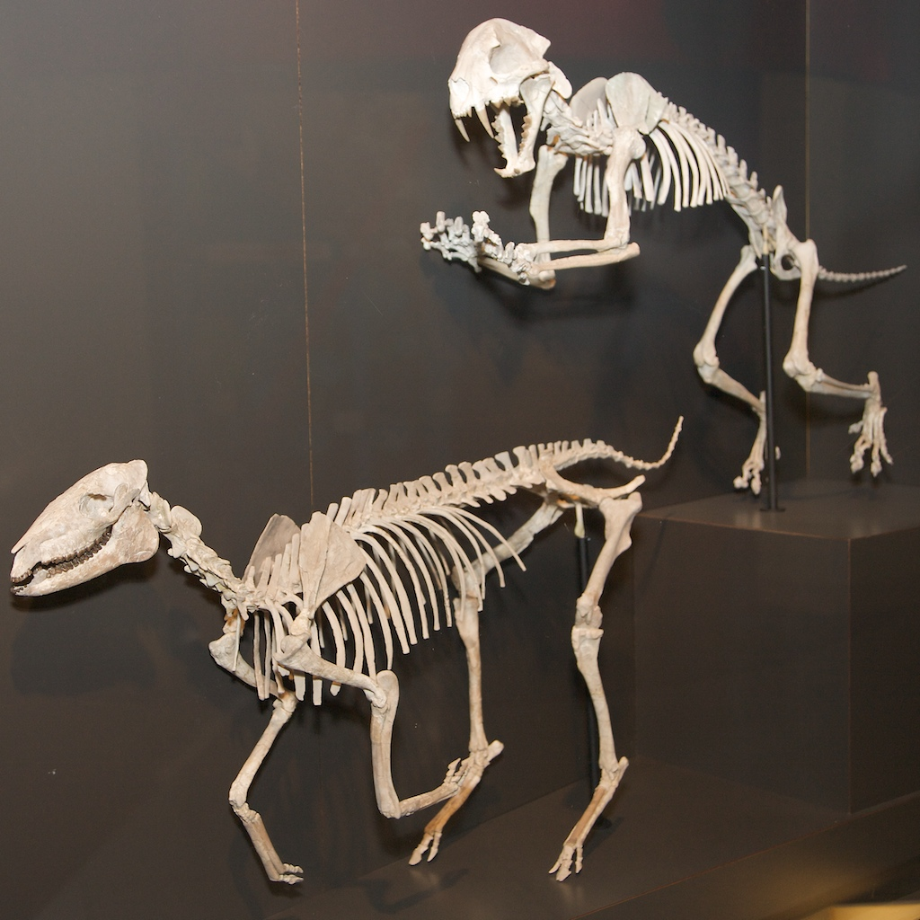 A three toed horse, Mesohippus baidi (Oligocene, Brule Formation, Pennington County, South Dakota) HMNS 1017 Mesohippus represents the second stage of evolution of the horse. As a forest dweller, the size of a collie dog Mesohippus had the short, low-crowned teeth of a browsing animal that fed on leaves and soft twigs. Wikipedia Loves Art at the Houston Museum of Natural Science This photo of item # [1] at the Houston Museum of Natural Science was contributed under the team name "etee_in_Space_Ceetee" as part of the Wikipedia Loves Art project in February 2009. Houston Museum of Natural Science The original photograph on Flickr was taken by etee—please add a comment to the original Flickr page whenever a use has been made on Wikipedia or another project. Project galleries on Flickr: this institution, this team